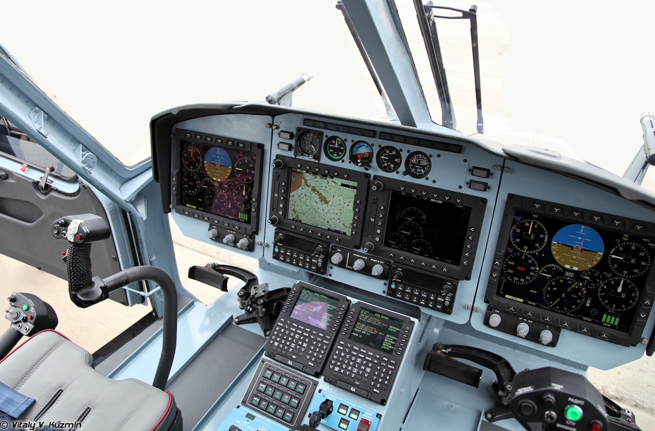 AKS Airshow 2013 Kamov Ka-62 cockpit (eliminated outside distractions}